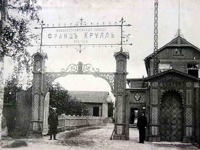 Entrance to Franz Krull Machine-Building Factory in Kalamaja, Tallinn, Estonia.